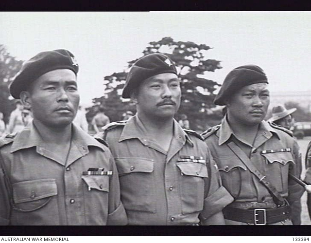 TOKYO, JAPAN. 1946. GURKHAS FROM THE 2/5TH ROYAL GURKHA RIFLES WATCH AS THEY TAKE OVER GUARD DUTIES FROM THE 4TH BATTALION, NEW ZEALAND EXPEDITIONARY FORCE, ON IMPERIAL PLAZA. LEFT TO RIGHT: SUBEDAR CHANDRABAHADOR THAPA; SUBEDAR GAJE GHALE, VC; SUBEDAR CHOWANBAHADOR.